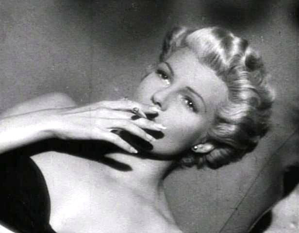 Screenshot of Rita Hayworth in the trailer for the film The Lady from Shanghai.